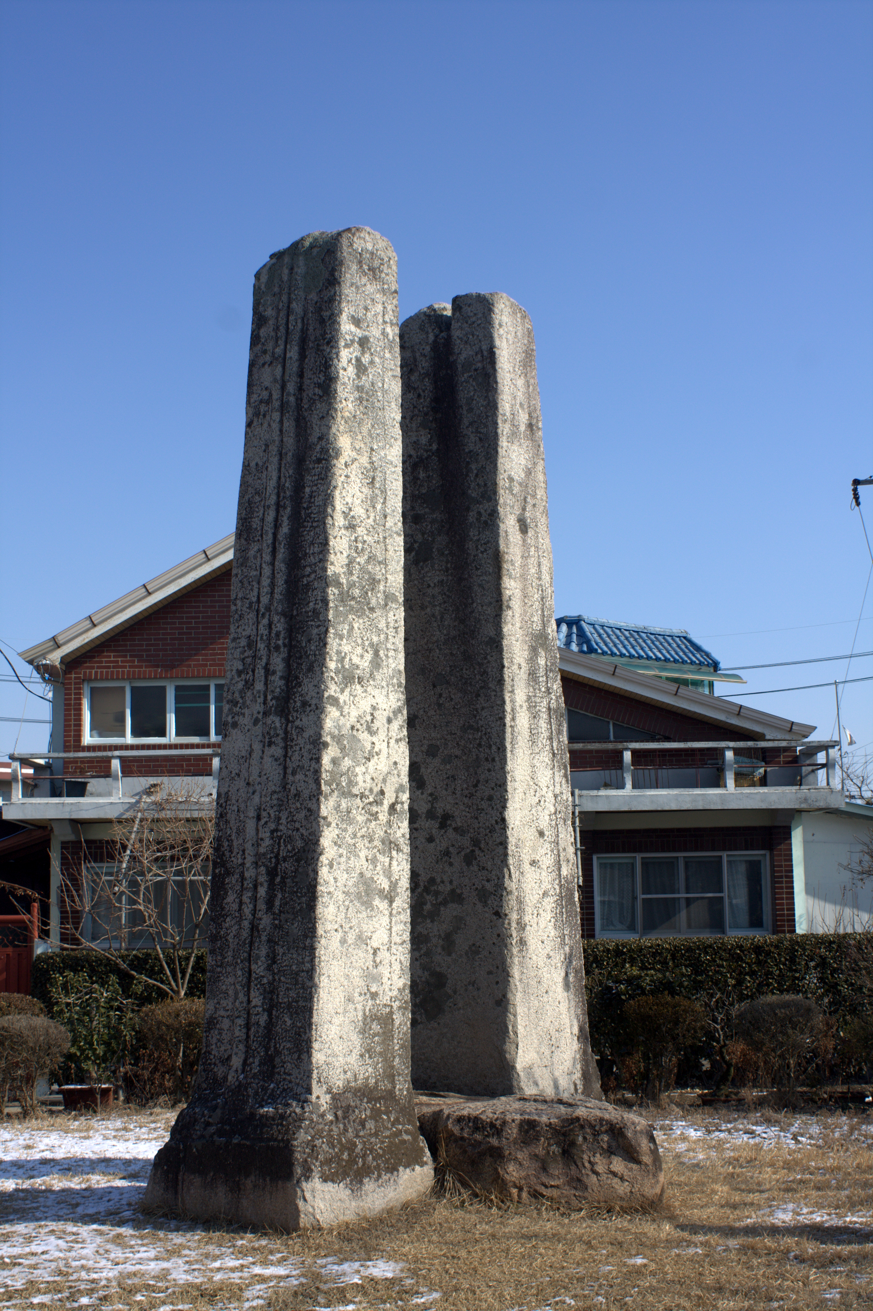 Dangganjiju at Ogwan-ri, Hongseong, Korea